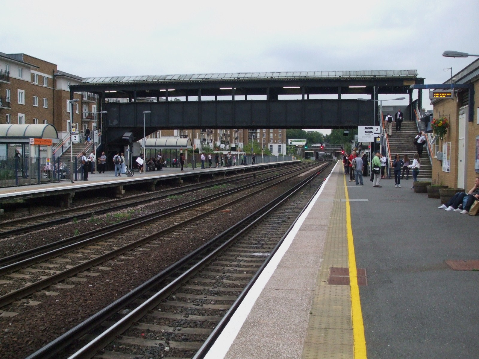 Kensington Olympia station Overground platforms looking south. Also served by Southern services between Brighton and Watford Junction. Note fast central track. Cross Country trains also pass through, some stopping.